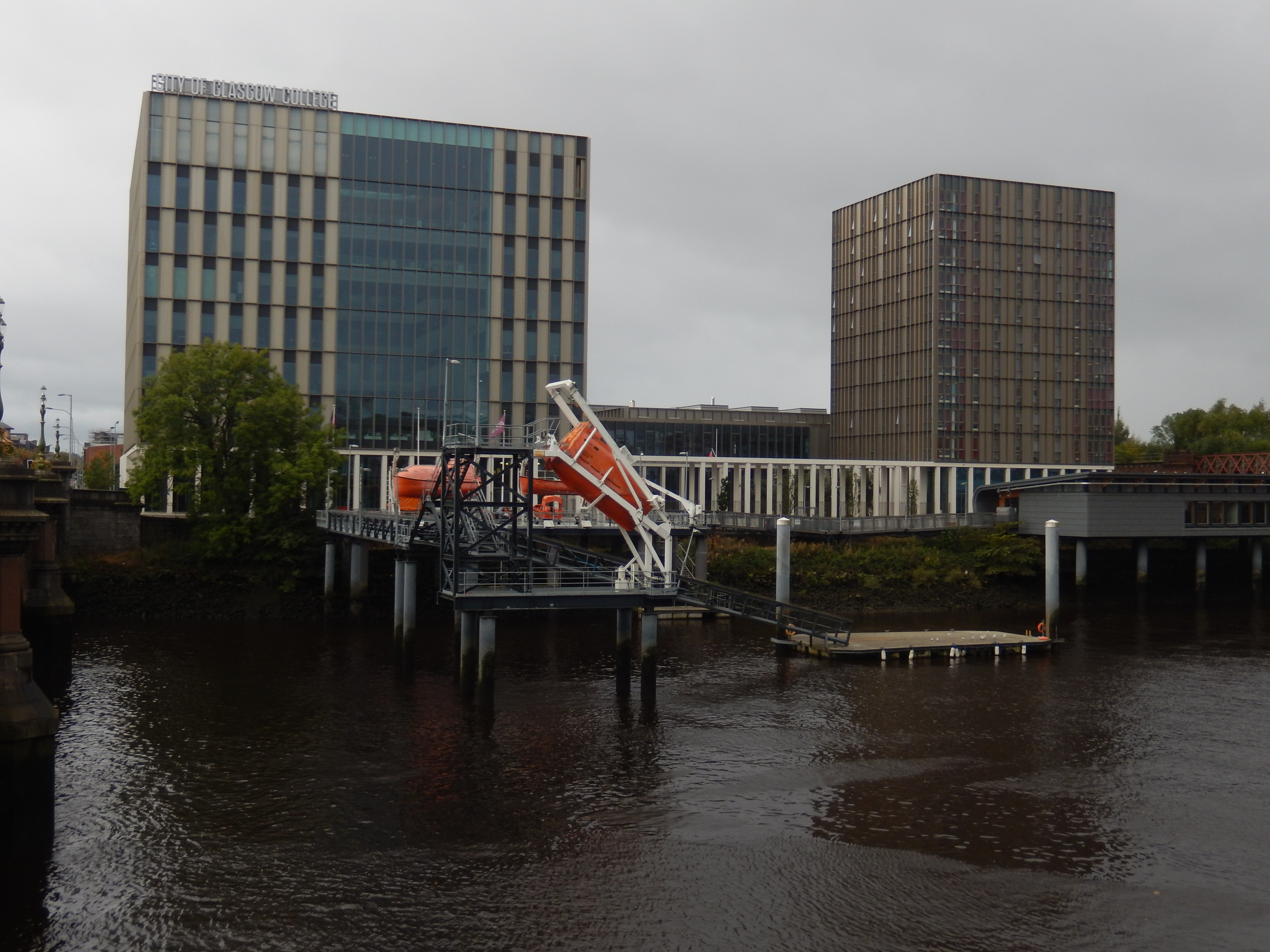 City of Glasgow College riverside Campus viewed from across the River Clyde.